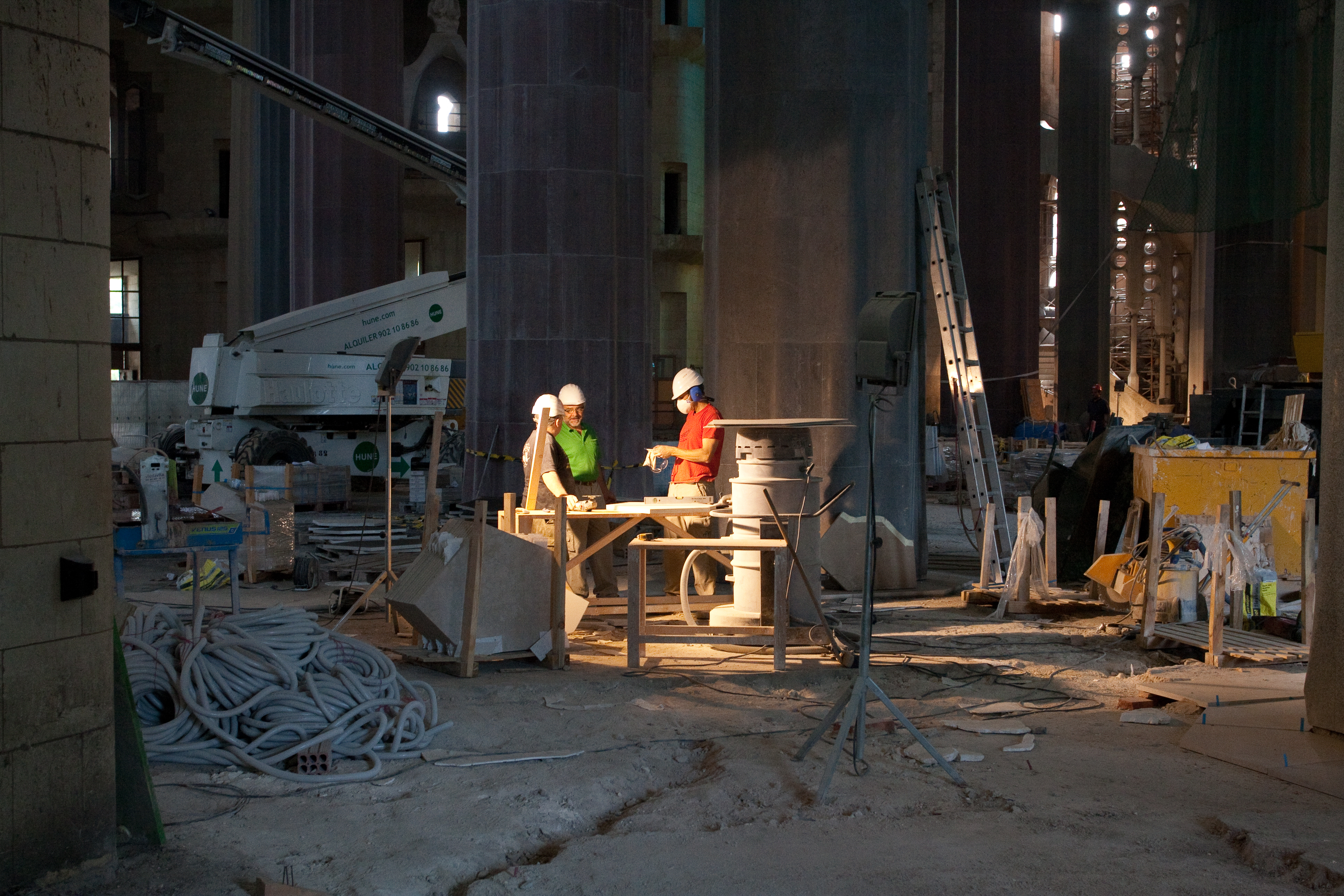 Workers and AWP's in the nave of Gaudi's Sagrada Familia church in Barcelona